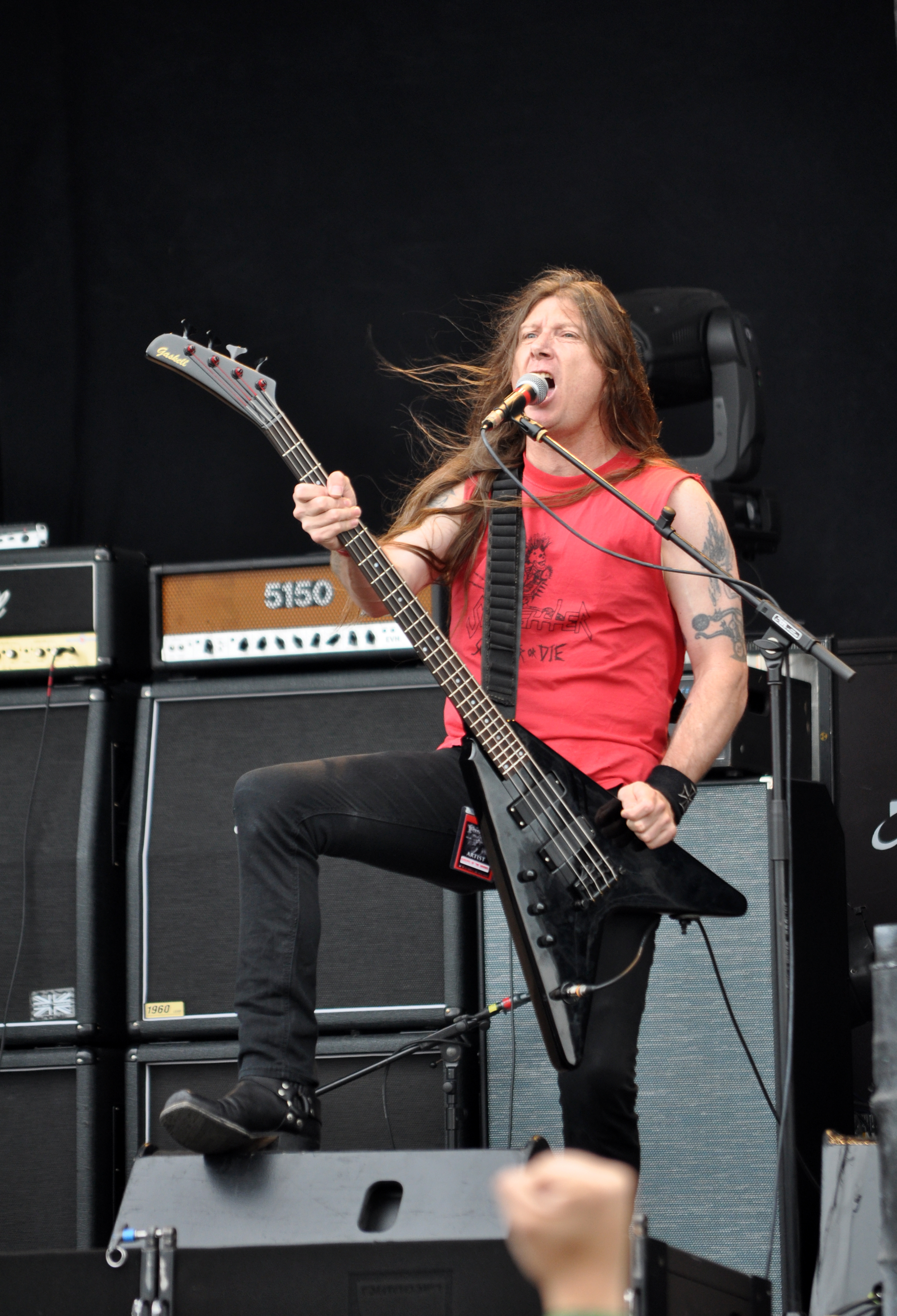 Gospel of the Horns at Party.San Open Air 2012